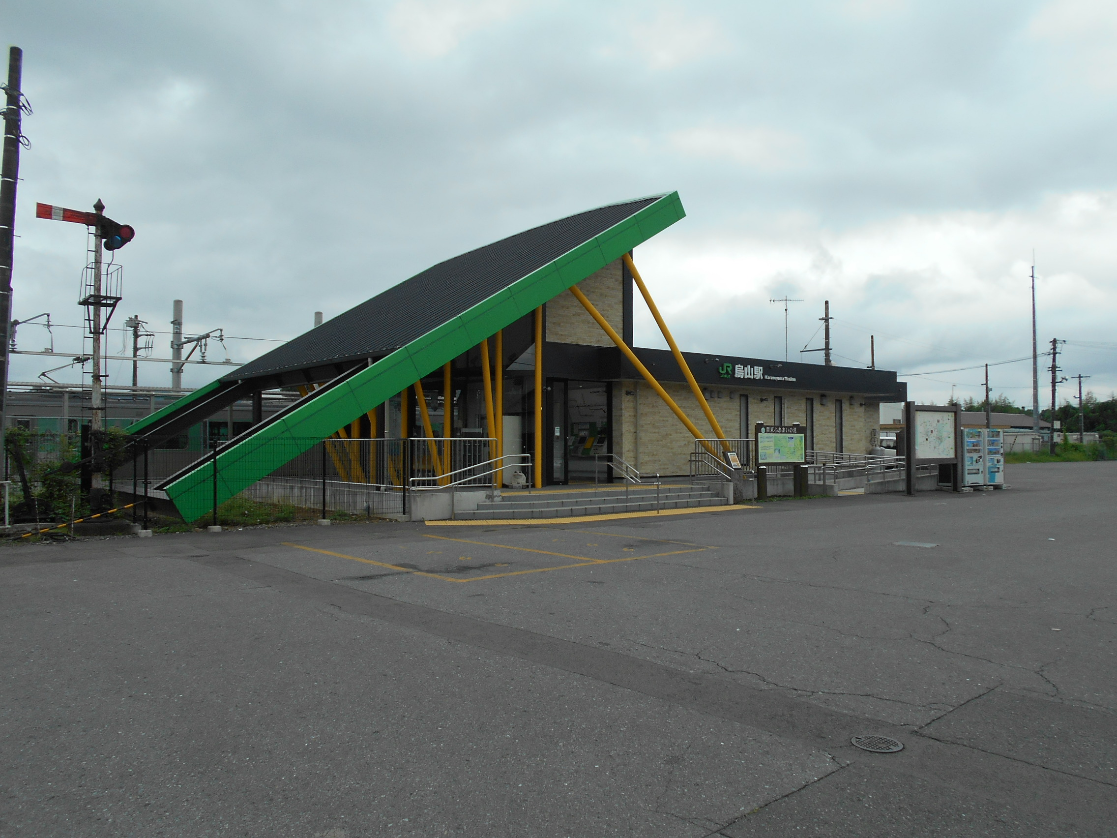 Karasuyama Station on the Karasuyama Line in Tochigi Prefecture, Japan